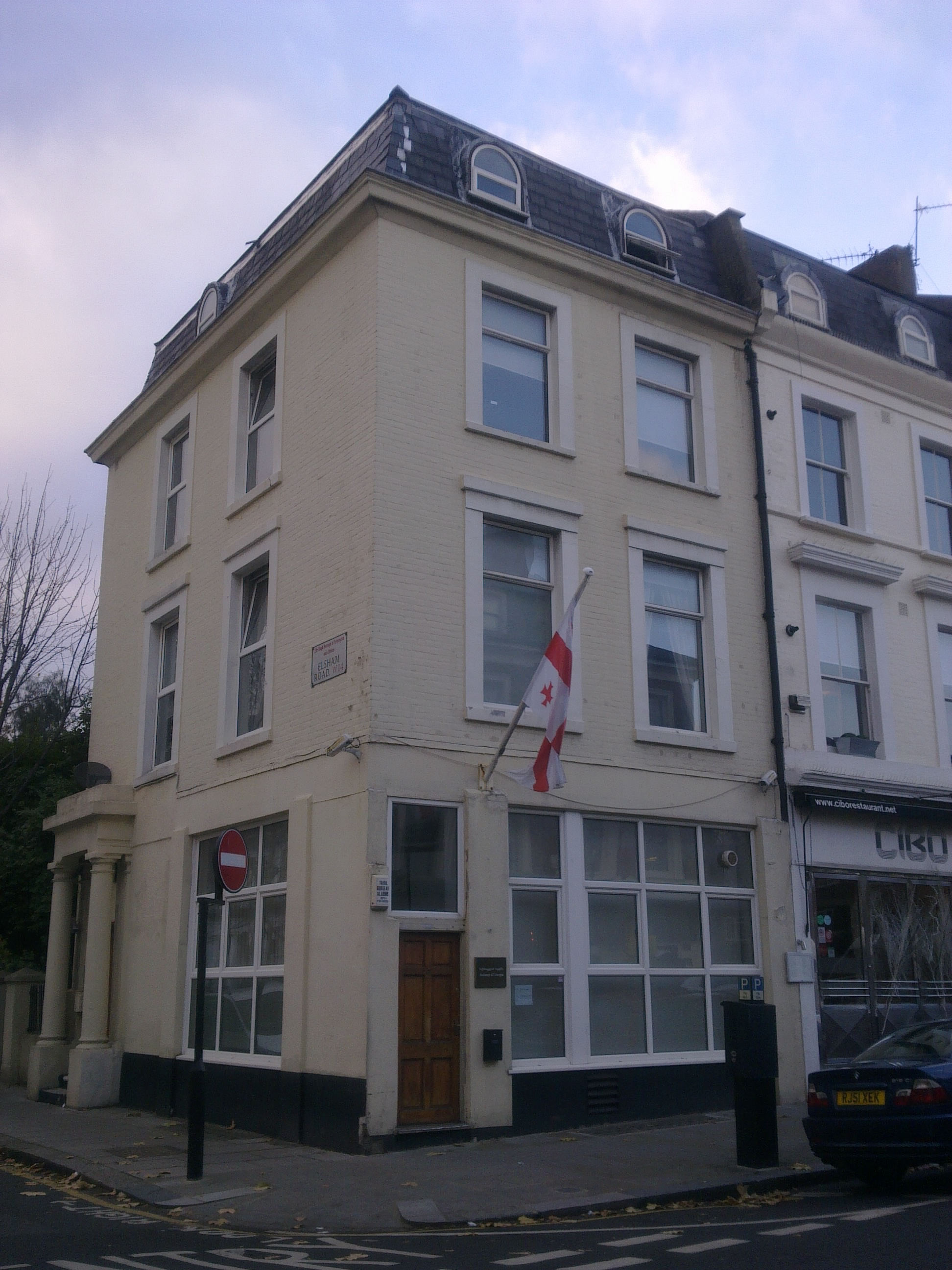 Embassy of Georgia in London 1